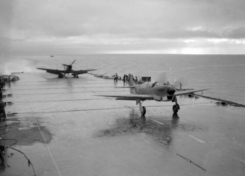 A Fairey Firefly, a two-seat long range fighter taking off from the flight deck of HMS Illustrious on the Clyde. A Seafire can be seen at the far end of the flight deck with its engine running.